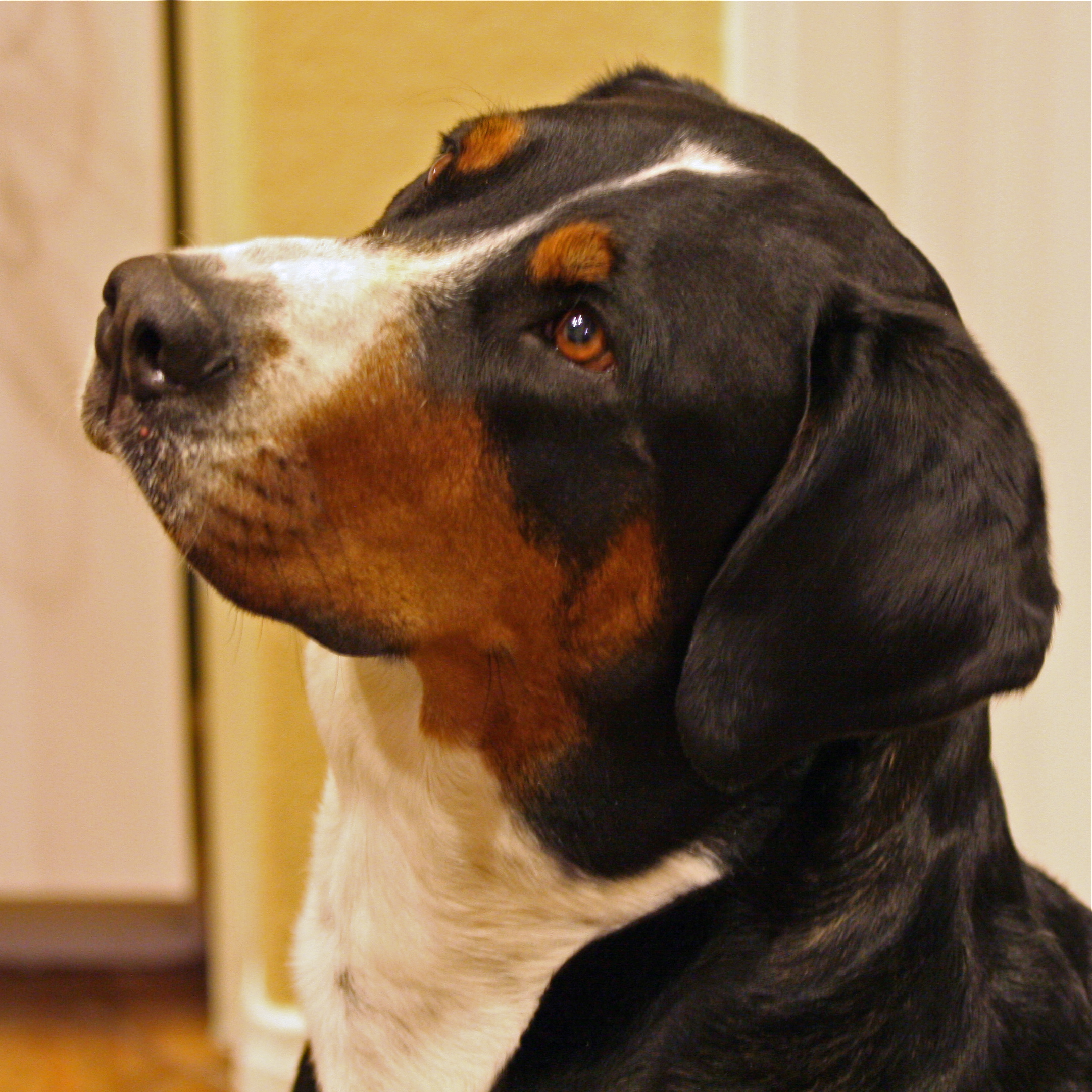 My dog's not spoiled ... I'm just well trained! The female Greater Swiss Mountain Dog gets up to 130 lbs. That is nearly 7 times the weight of Yoshi (about 20 lbs). My good friend Tom owns this beauty named Hannah. I hit it off with her and by the end of the night was ready to bring Yoshi home a pal. Sadly, Tom was not ready to part with her.